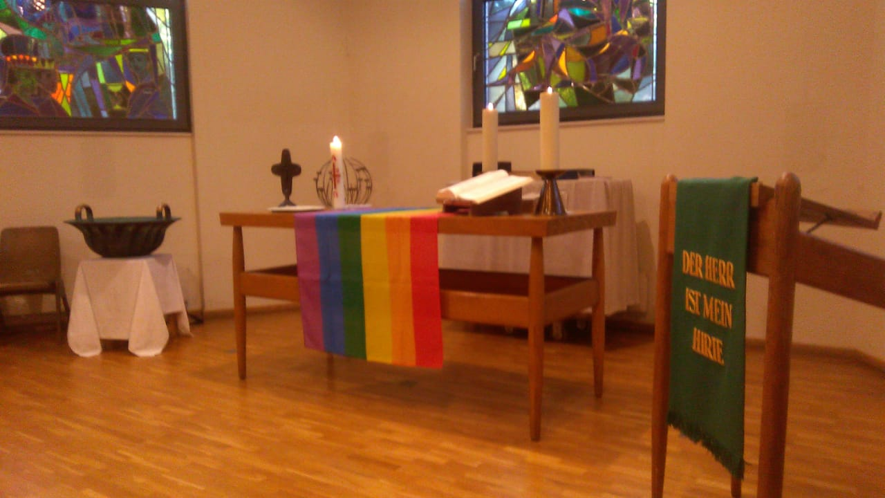 Ecumenical worship service at the Emmaus Church in Berlin, Germany. Organized by the Homosexuelle und Kirche organization (Homosexuals and church)